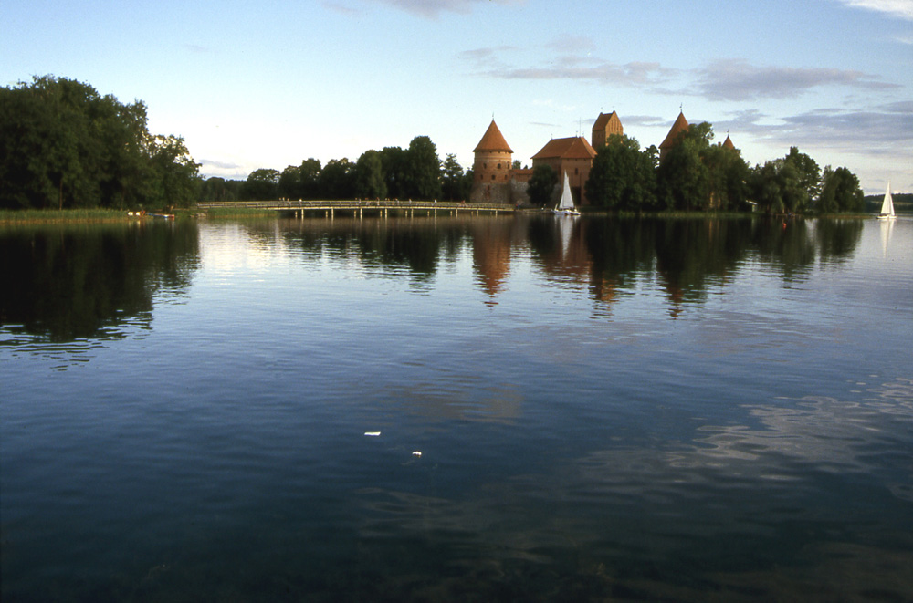 The castle in Trakai